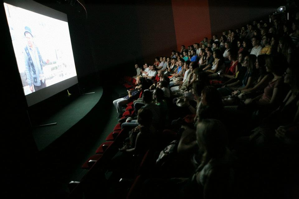 The Big Theatre of the Youth Center of Banja Luka at Kratkofil 2012.